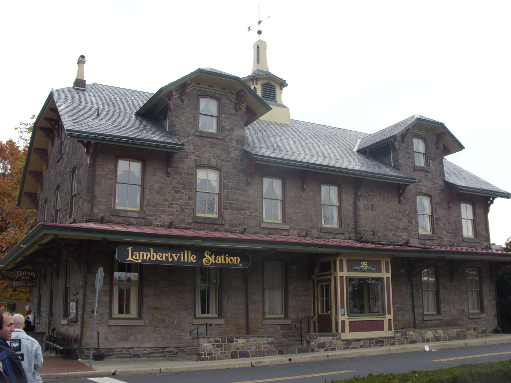 The former Lambertville Station in Lambertville, New Jersey on the Pennsylvania Railroad's former Belvidere and Delaware Branch (known as the Bel-Del). Designed by architect Thomas U. Walter, built about 1873.